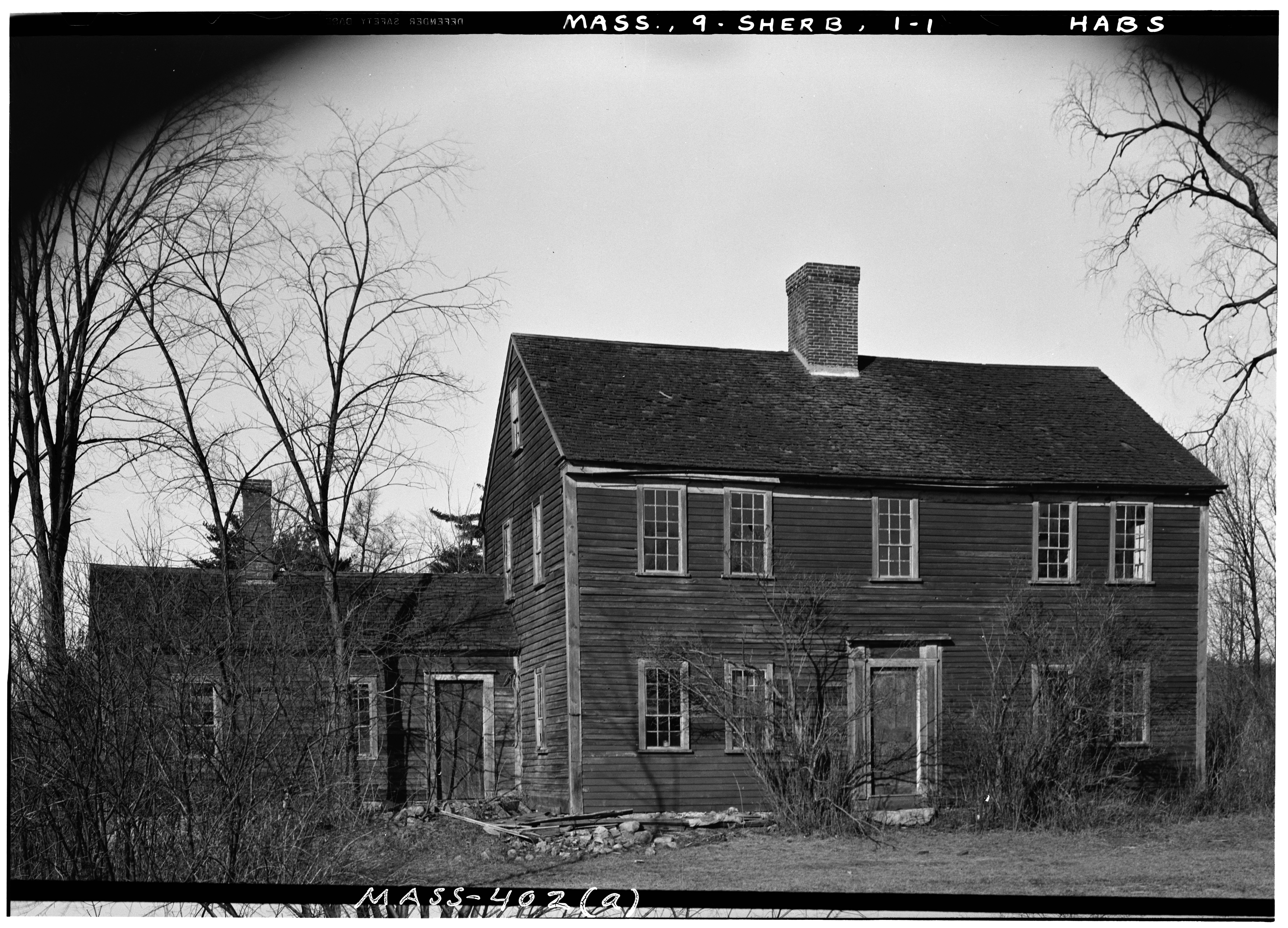 Deacon William Leland House in Sherborn, Massachusetts, USA. This house is listed on the National Register of Historic Places. This image is from the Library of Congress Historic American Buildings Survey (HABS). Frank O. Branzetti, Photographer; picture taken on Feb. 24, 1941. Survey number: HABS MA-402.